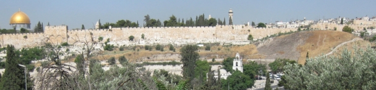 Golgotha - The Place of the Skull - where Jesus was crucified.